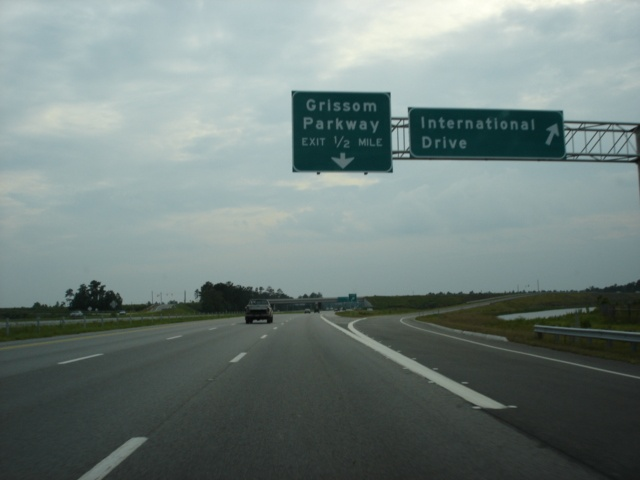 Carolina Bays Parkway at the Grissom Parkway Interchange